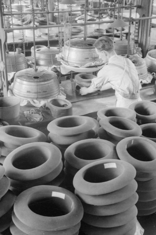 Rabbit Goes To Your Head- Hat Manufacture in Britain, 1940 This hat factory worker, surrounded by piles of hats, is forming the shape of the brim of the hats. This is known as flanging.